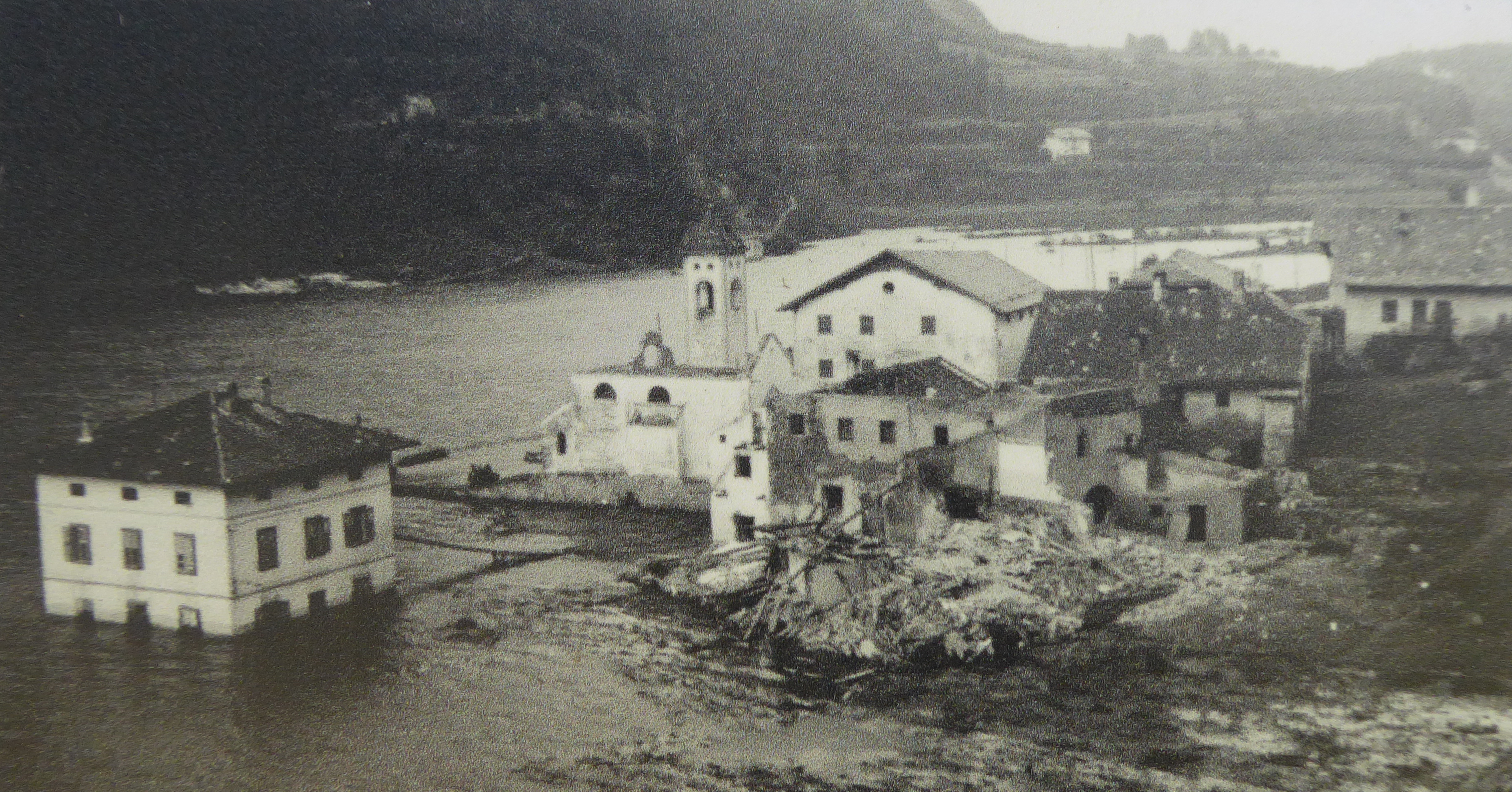 The flooding of the old town of Stramentizzo, already partly demolished, in 1955-56